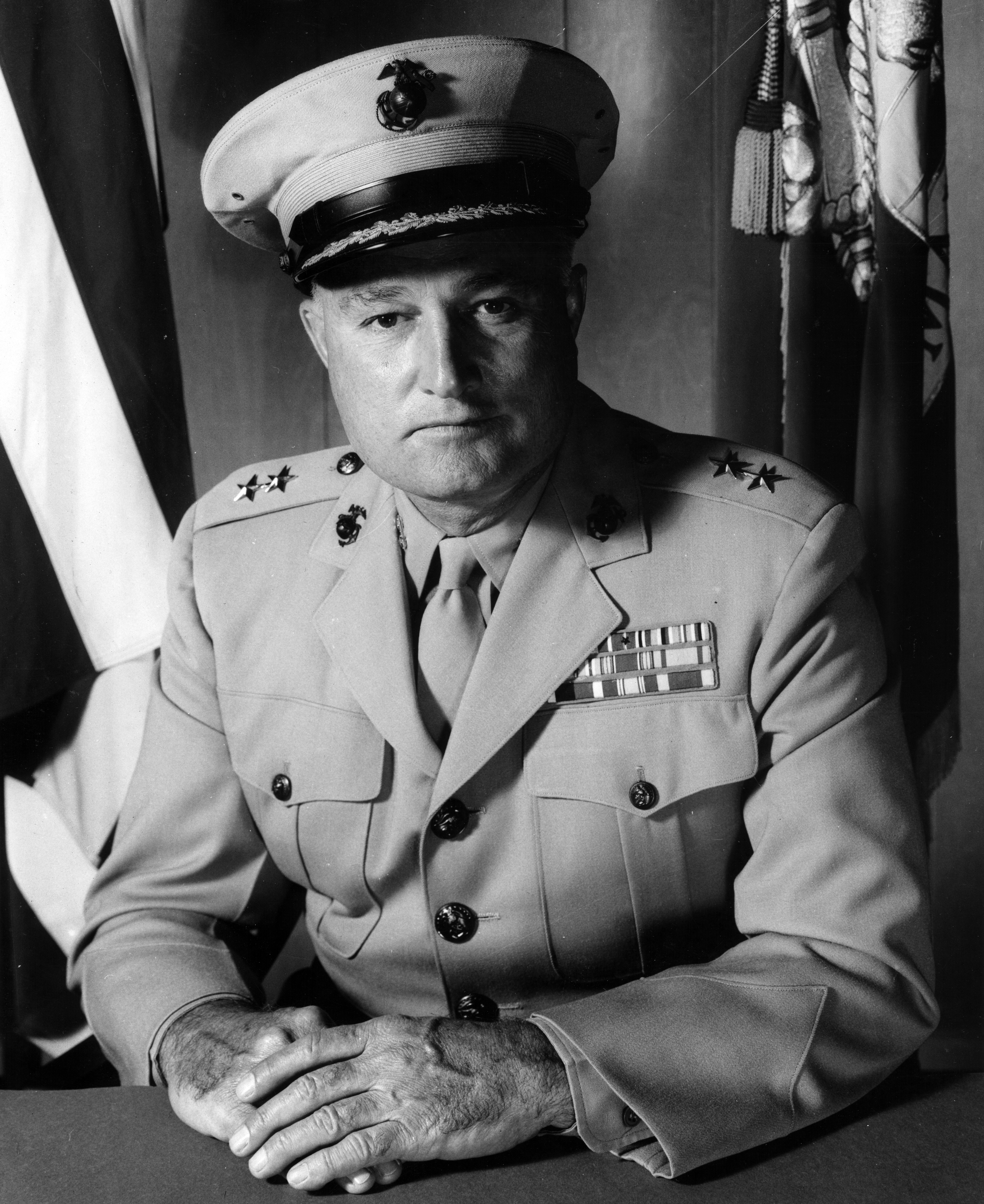 John Hillary Masters (May 23, 1913 - October 22, 1987) was a officer in the United States Marine Corps with the rank of Major General. He spent most of his senior career in the Quartermaster Department and retired in July 1969 as Deputy Chief of Staff to the Commander in Chief, Atlantic Fleet. His older brother was lieutenant general James M. Masters Sr.